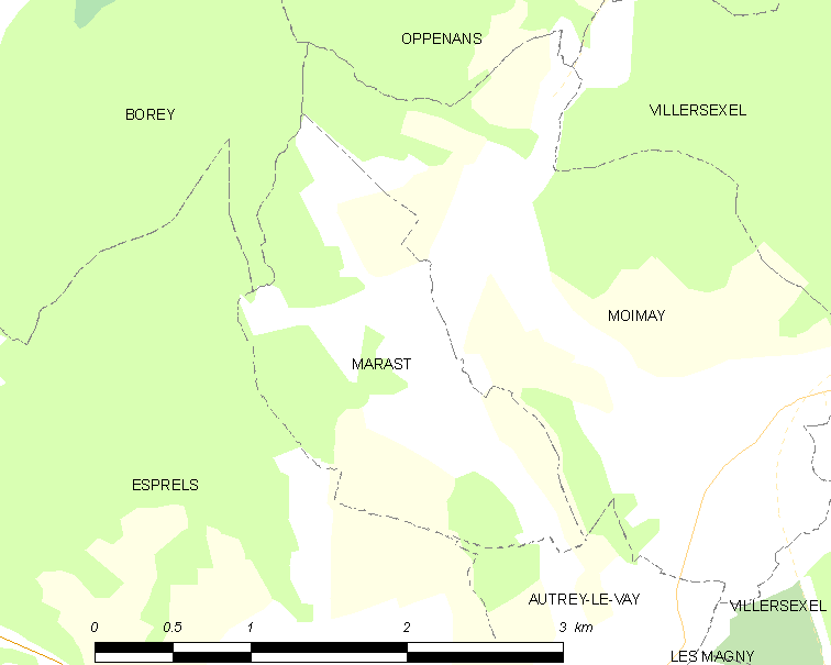 Map of French municipality